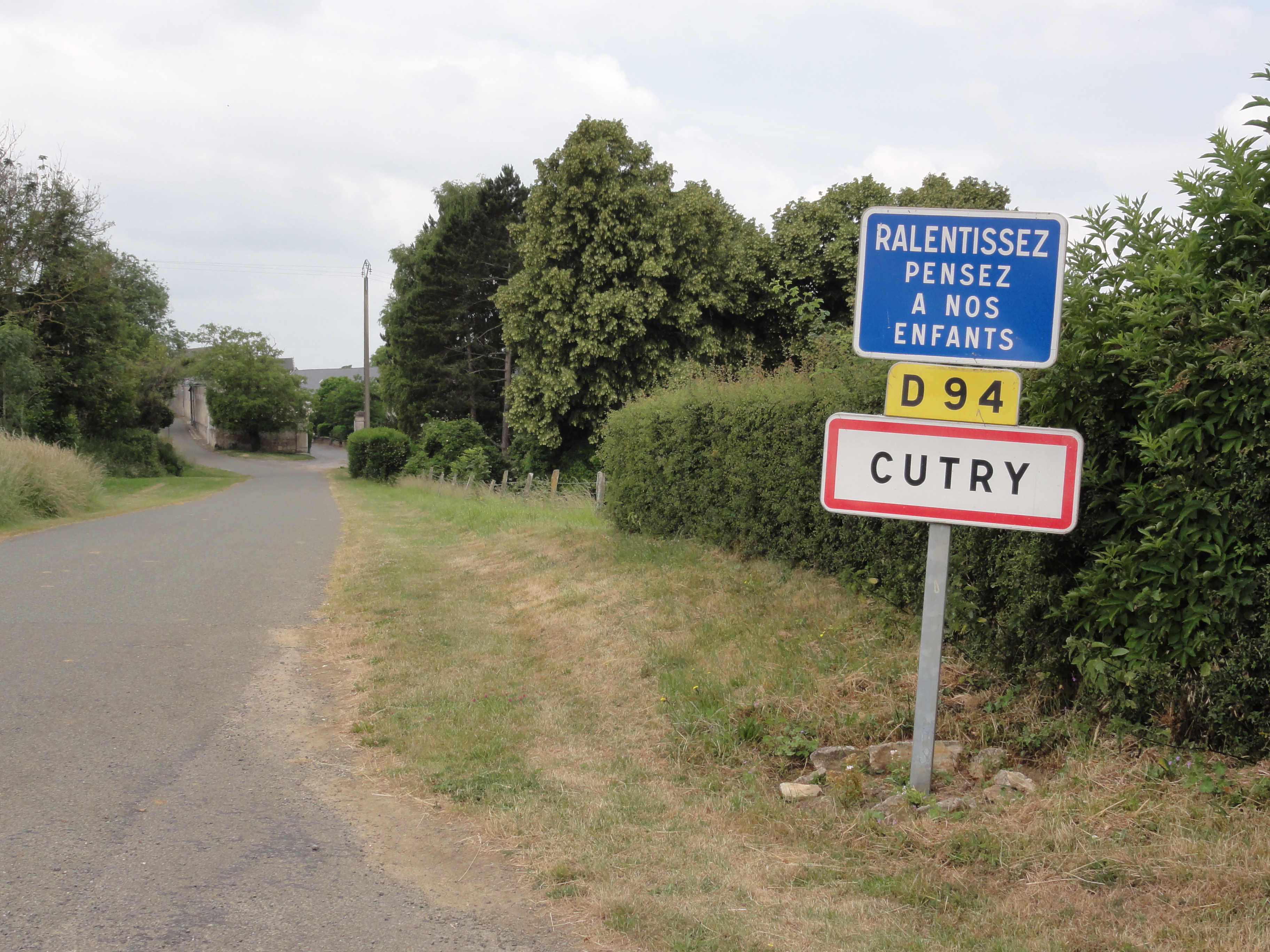 Cutry (Aisne) city limit sign